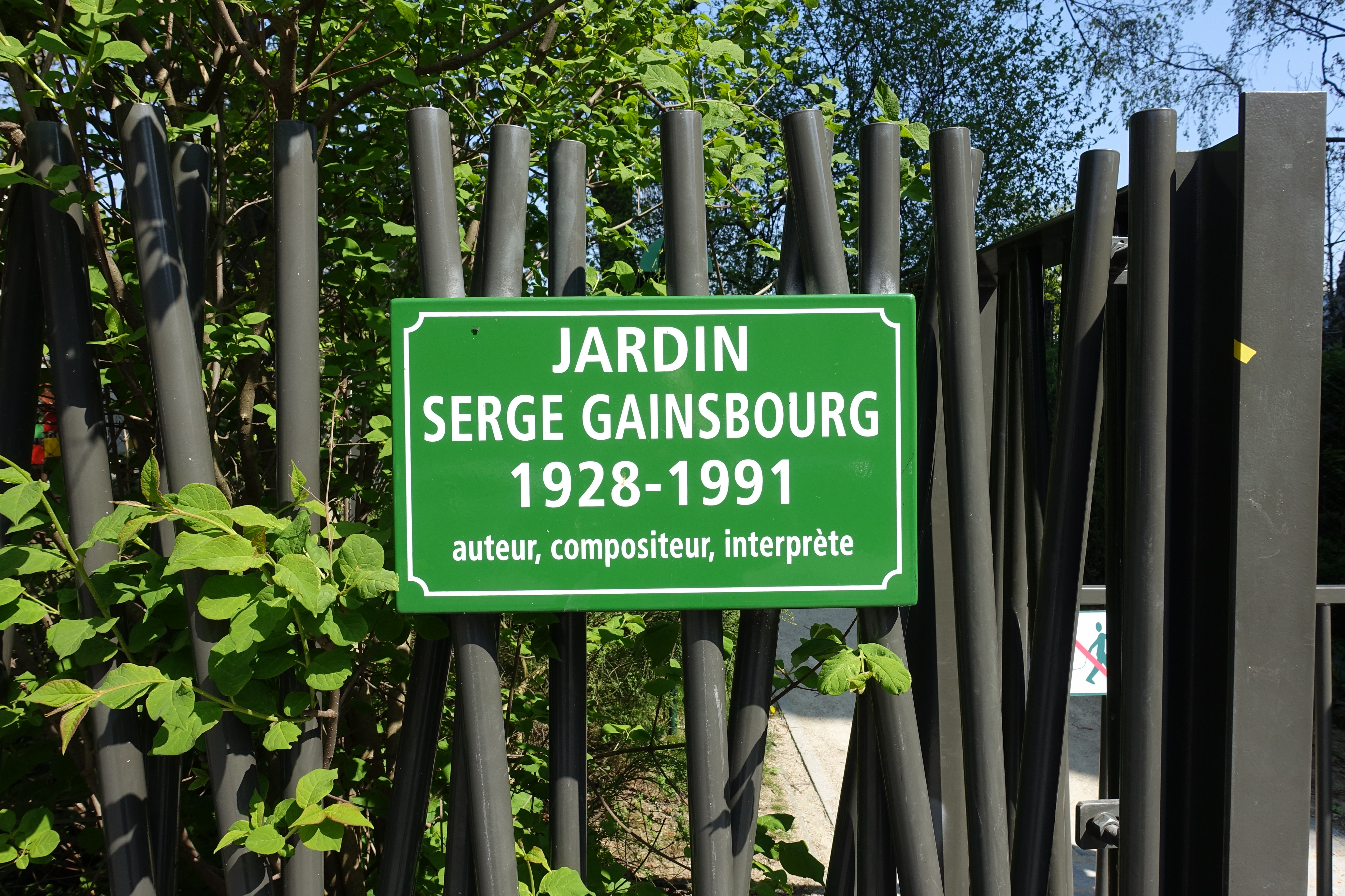 Jardin Serge-Gainsbourg, Paris, France.